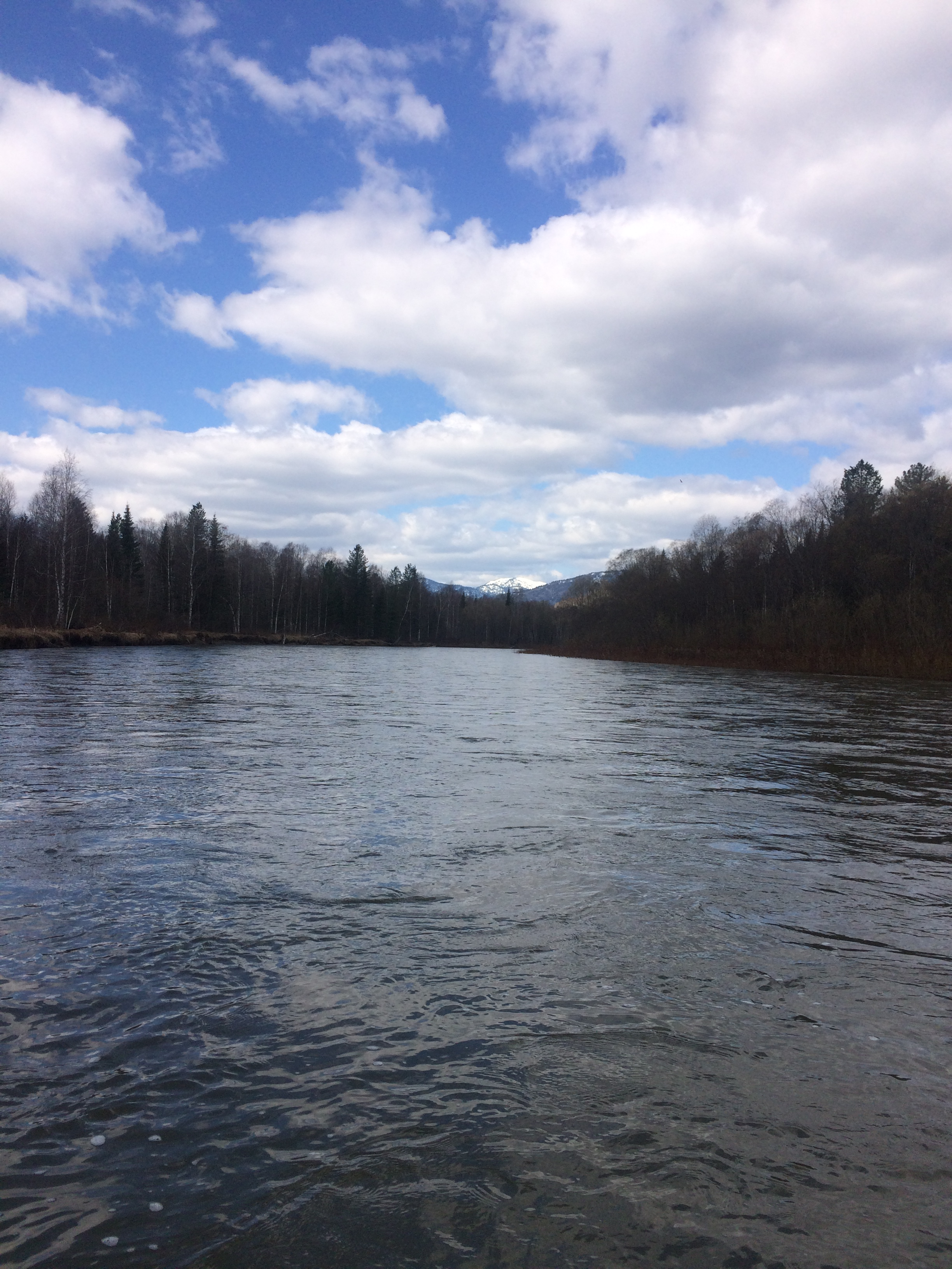 Mras-su River, Russia, Kemerovo Oblast, May 2016